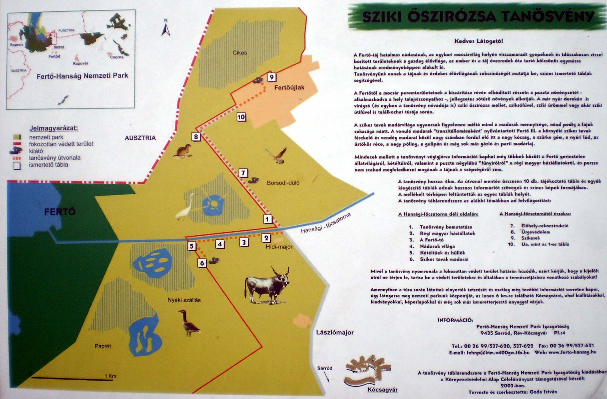 Information board of the "Sziki őszirózsa" educational path